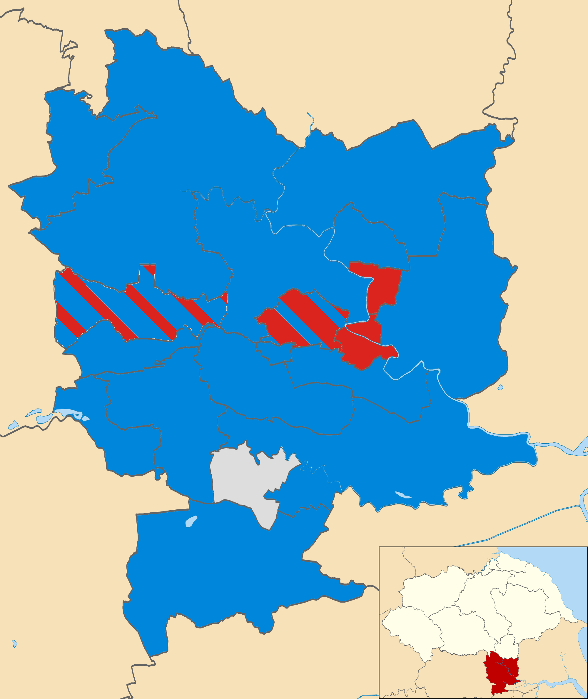 Map showing the makeup of Selby District Council as of 10/11/2017.